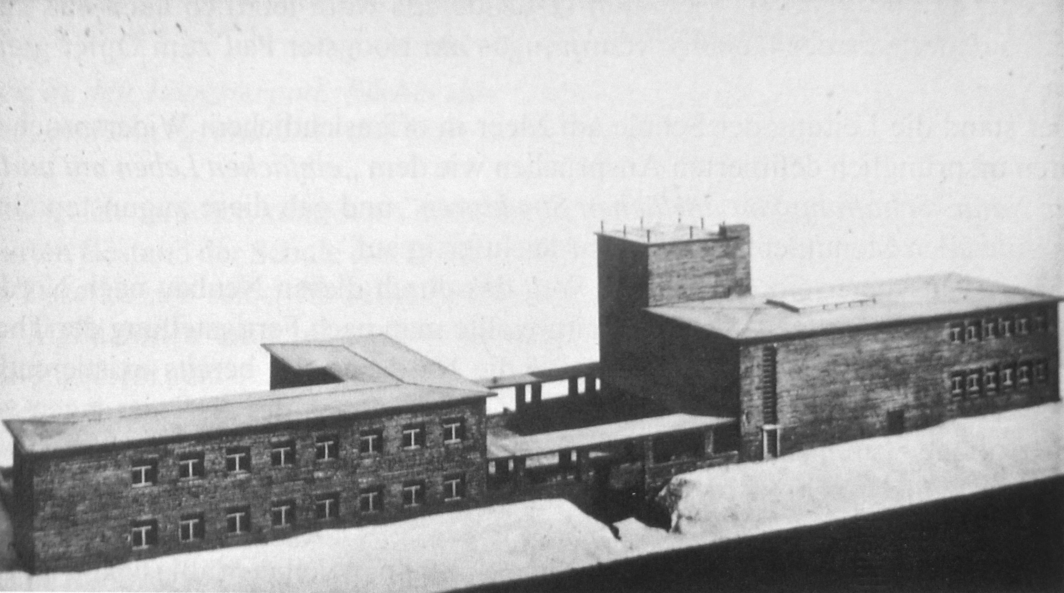 3D model of the construction project of Schule am Meer (= School near the Sea) on the East Frisian island Juist in Prussia, based on the status of plans in 1929. The 3D model was made by Berlin-based renowned architect Bruno Ahrends (1878–1948) whose buildings are mostly under monument protection today, some even classified as UNESCO world cultural heritage. Most of his buildings are in Berlin, but also in the German states of Hesse and Lower Saxony.